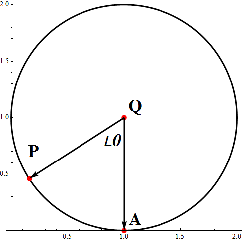 A circle used for the definition of a cycloid. P is the point that traces the curve, A is the intersection of the circle and the line it is traveling on (in this case, the x-axis) and Q is the center of the circle.